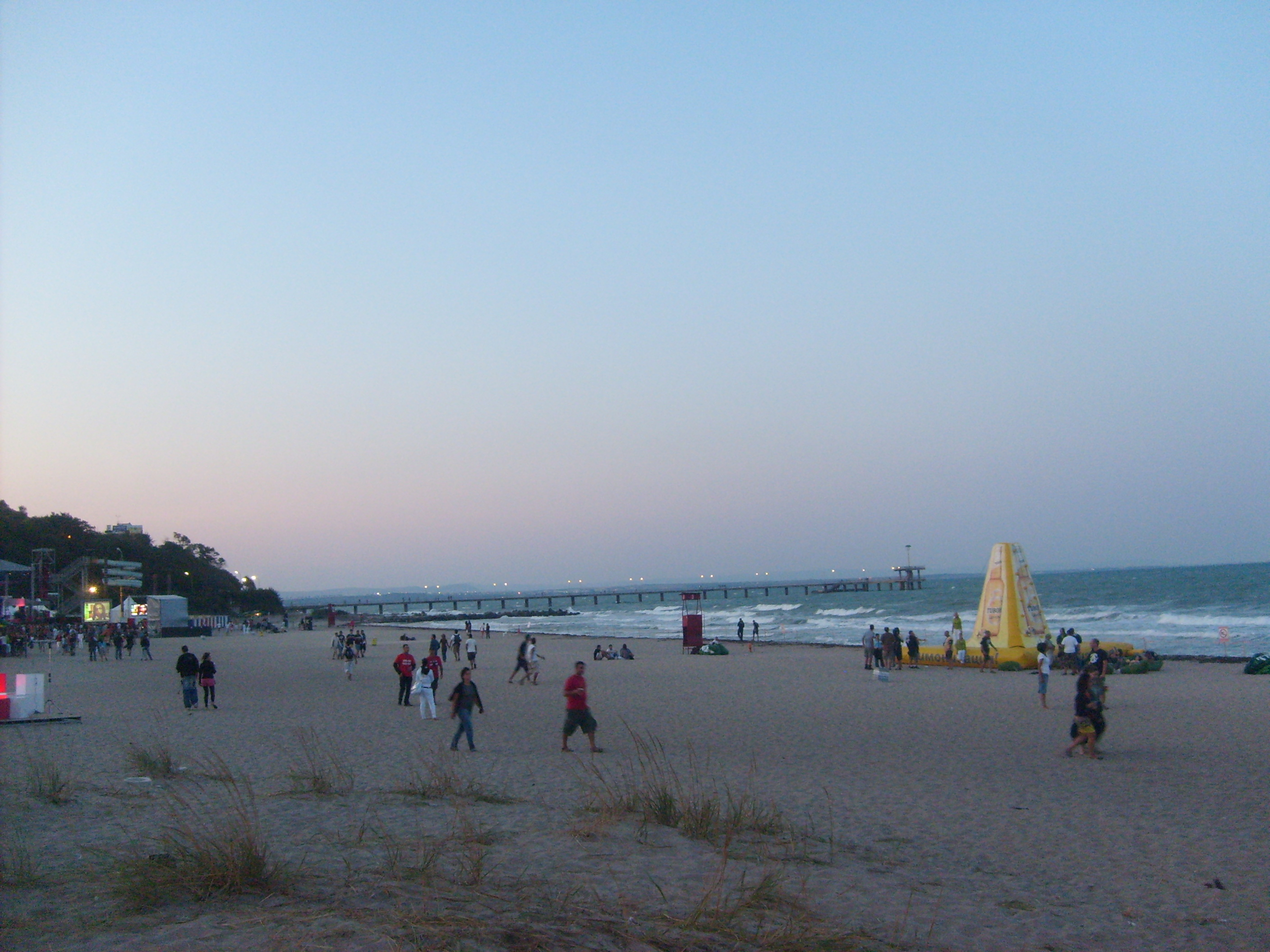 Spirit of Burgas 2009